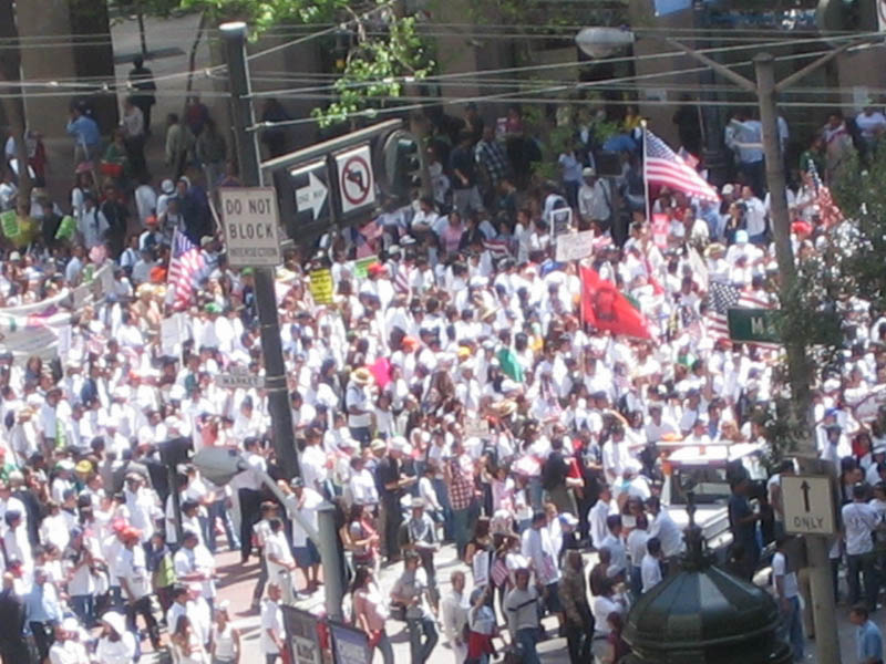 Protesters on San Francisco's Market Street during the Great American Boycott.